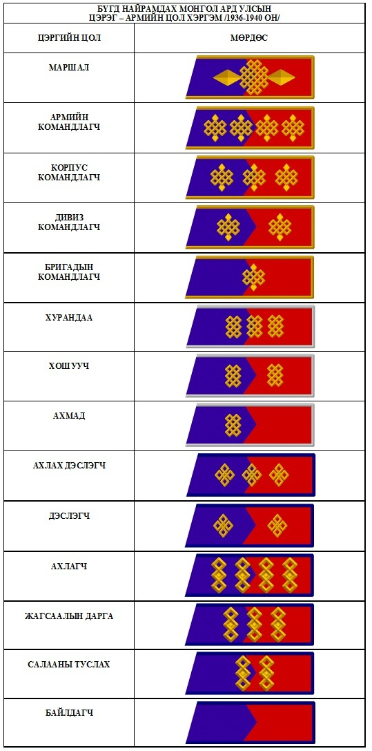 collar insignia (blouse) of the Mongolian People’s Revolutionary Army (Infantry), 1936-1940